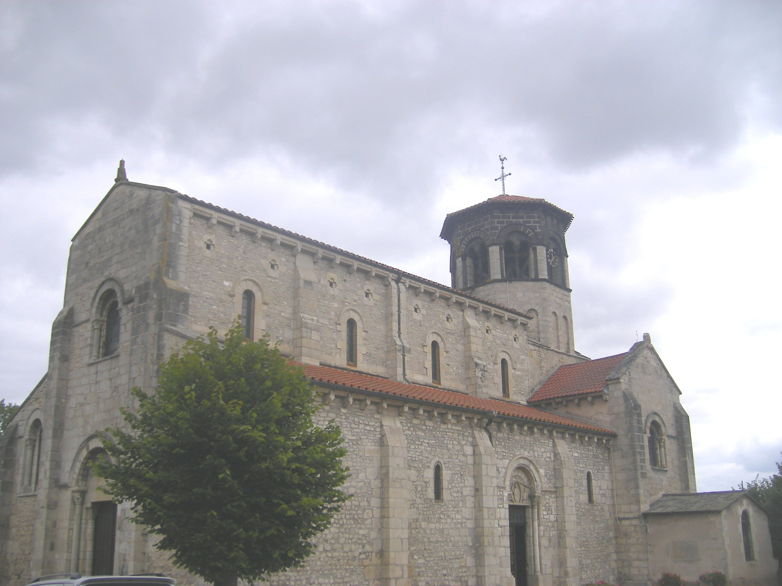 Thuret